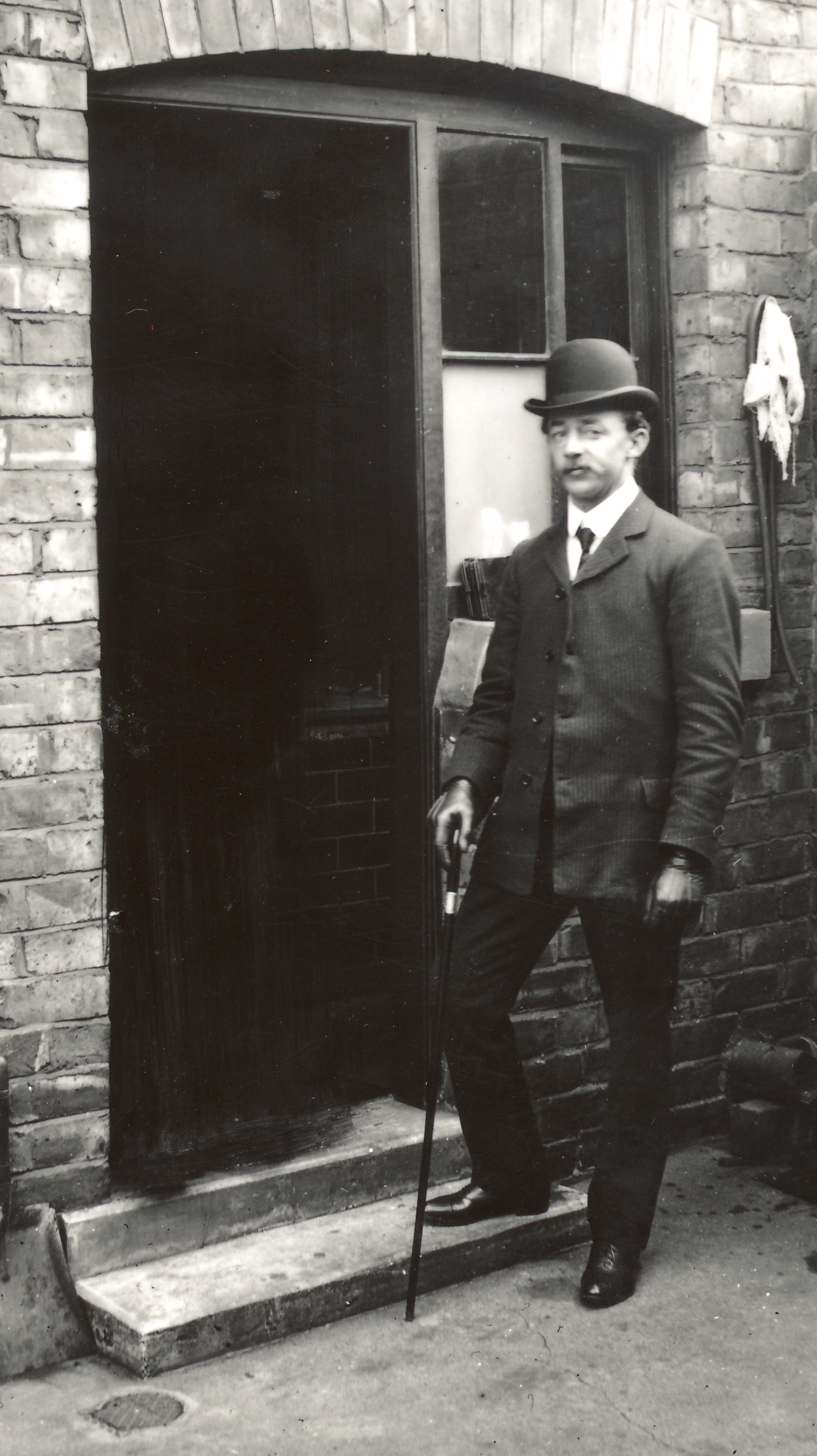 Albert Edwin (Bert) Roberts: Bert was an Ipswich coachbuilder by trade, but a true renaissance man at heart. Bert’s interests included geology, music, Aboriginal culture, nature and the modern technology of the early 1900s. His broad interests and love of life are reflected in the many photographs he took. Queensland Museum holds over 1000 of Bert Roberts’ plate glass negatives and prints from the era. Additional Information The Roberts family records indicate that Albert Edward Roberts was born in Birmingham, England, in 1854.Albert married Sarah Ann Hirons in 1875 Edgbaston Country Warwick England They had Six sons: Albert Edwin Roberts (known as Bert) was also born in Birmingham in 1878, William Augustus born 1880 George Henry born 1883 Alfred Horatio born 1887 Norman Victor born 1889Harry Leopold Dunbar, born 1891 all born in Ipswich Qld. The Roberts family migrated to Queensland (Australia) in 1880 on board the Dunbar Castle arriving at South Brisbane. Bert was a prolific photographer whose work is being shared on Wiki Commons. Bert married Florence Sarah Roberts in 1907. They had Five children who led long and interesting lives: Norman William (1908), George Alexander (1909), Florence Ivy (1912) and Don (John Edwin) 1916. ,Trevor Moreton (1922), did not survive infancy.